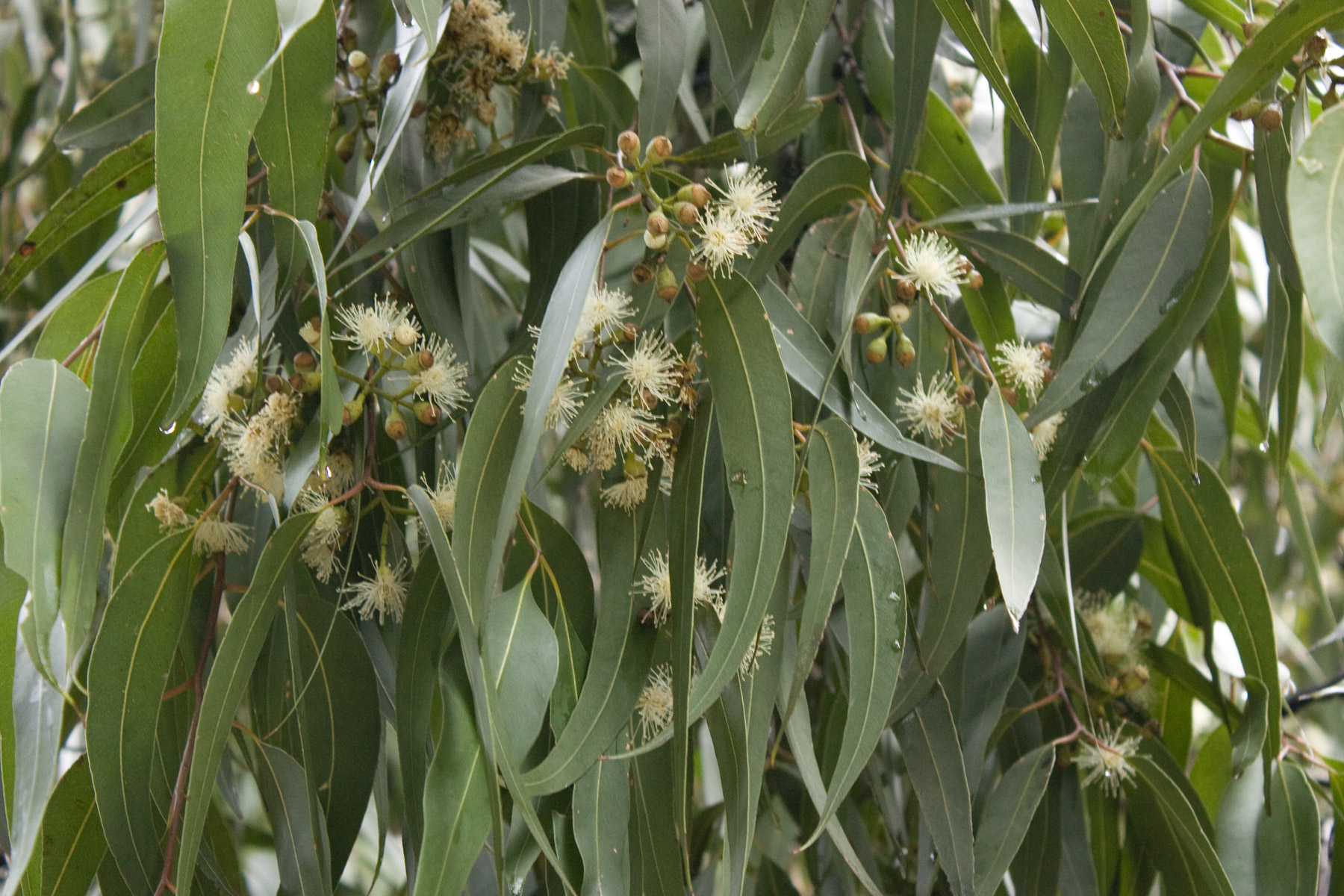 Eucalyptus maculata (Spotted Gum) Flowers & Foliage, Drysdale Victoria Australia